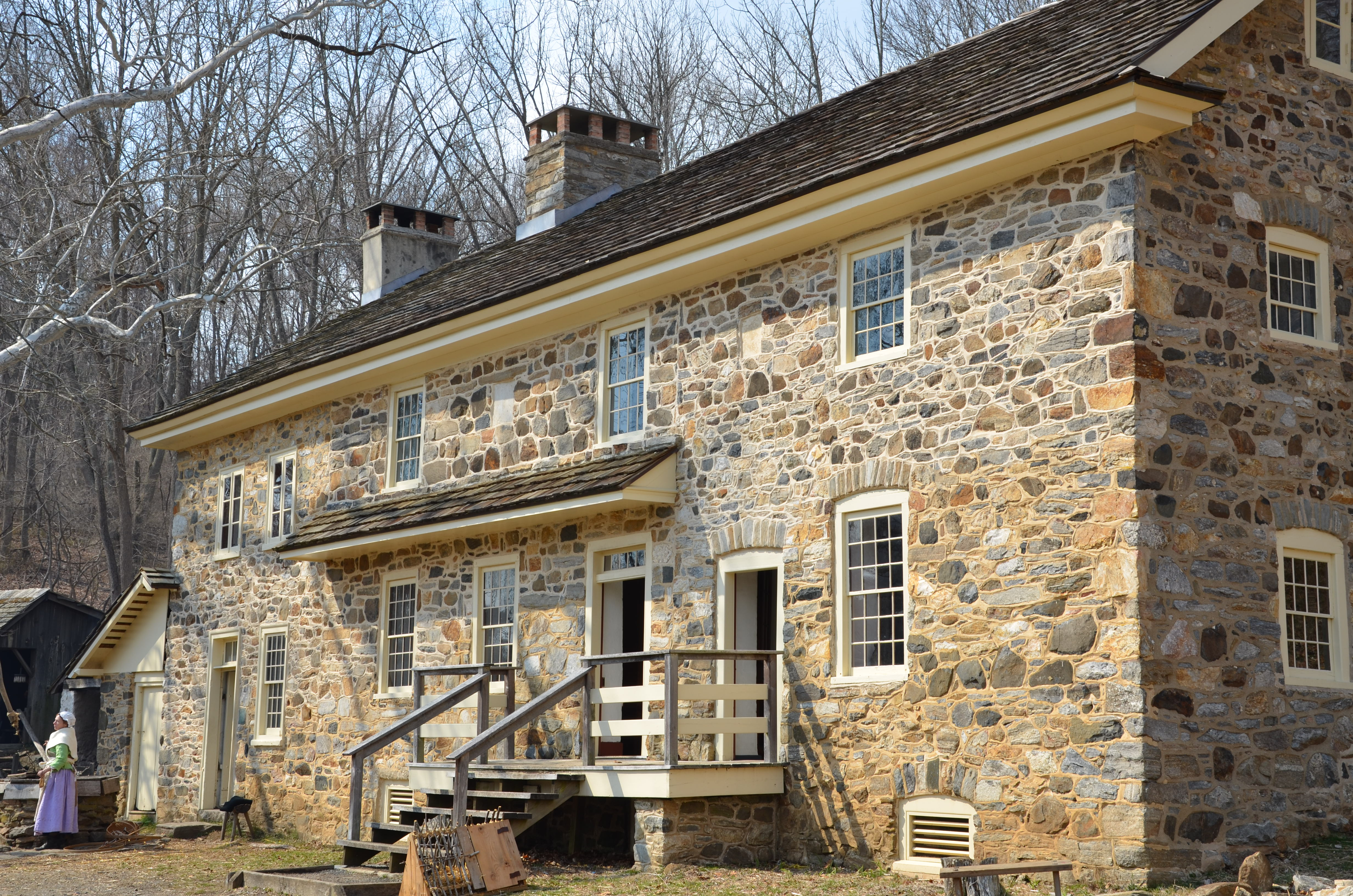 The Pratt House at the Colonial Pennsylvania Plantation in Ridley Creek State Park, Pennsylvania.